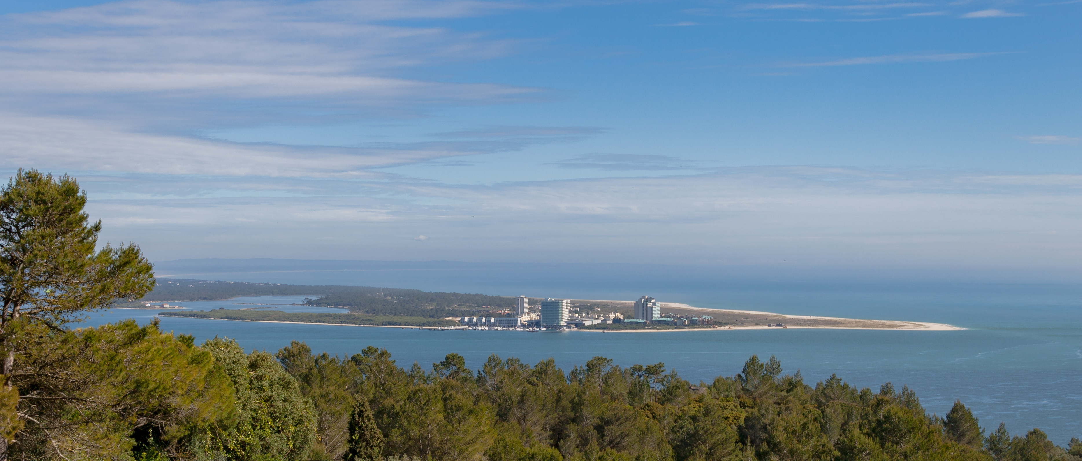 General view of Setubal from the mill in the Serra da Arrábida, Portugal